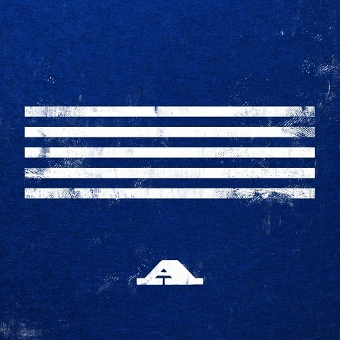 Blue Cover of single A by Big Bang